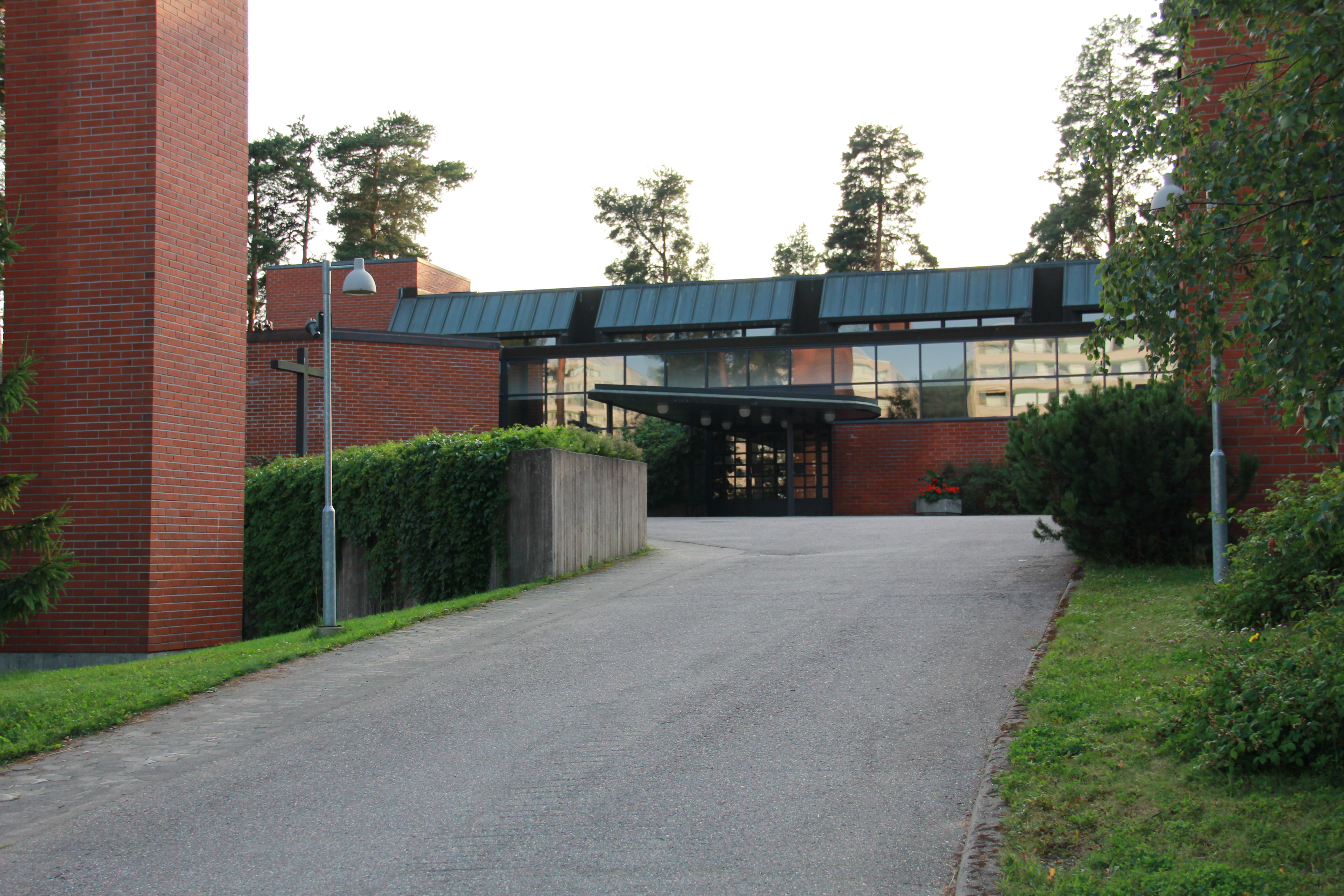 Kaarina Church in Kaarina, Finland. Architects Pitkänen-Laiho-Raunio, completed in 1980 as a parish center, since 1991 as a church.